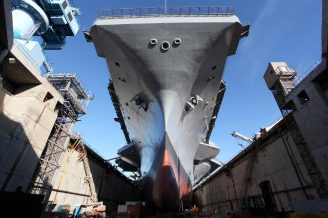 120110-SY521-010 USS Harry S. Truman (CVN 75) in drydock at Norfolk Naval Shipyard for the aircraft carrier's Docking Planned Incremental Availability (DPIA). Date Picture Taken: 2/9/2012 0:00